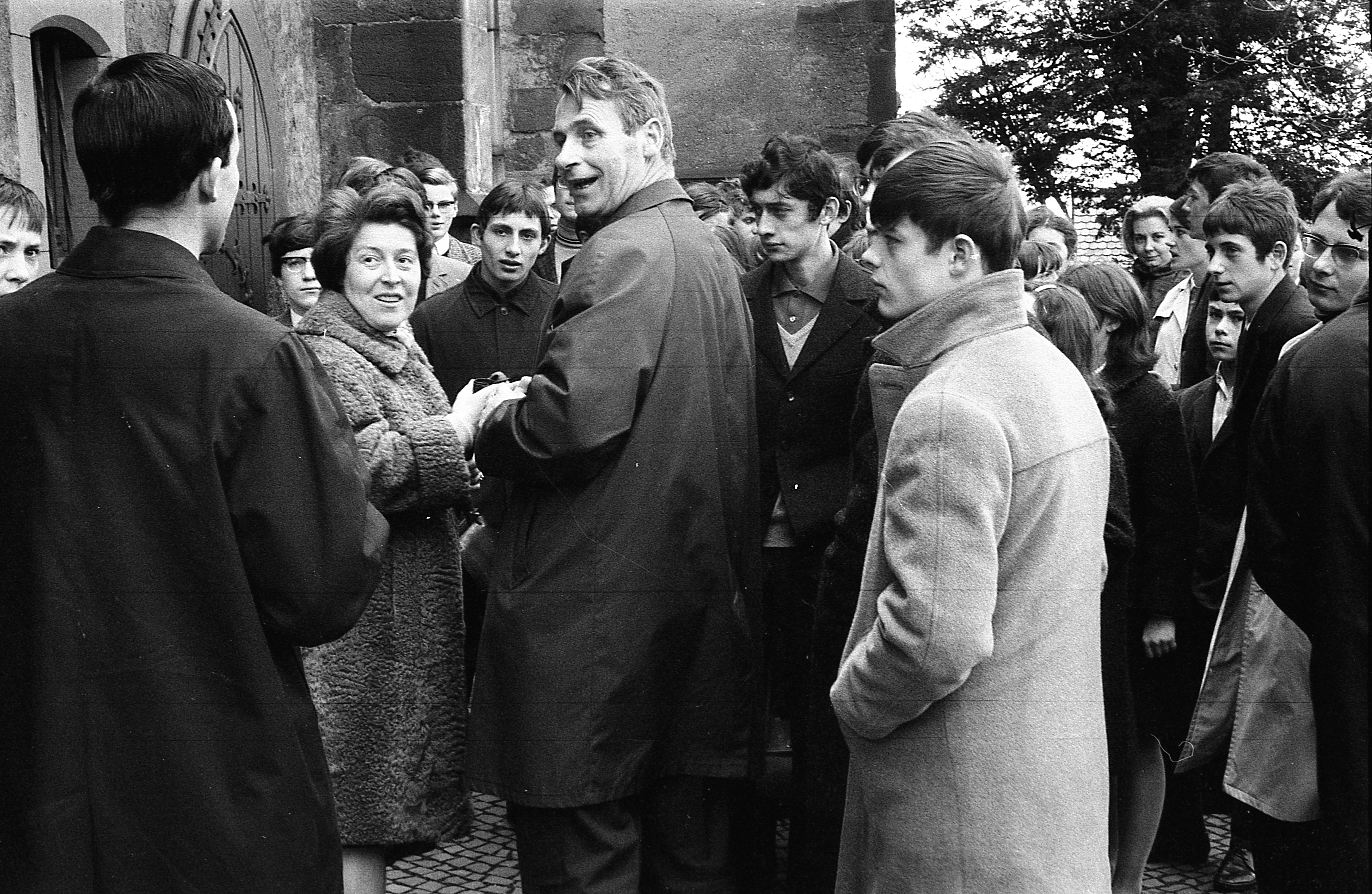 1967-03-26 Oberursel Ostern Georg Hieronymi und Margarete Portefaix führen jugendliche Besucher aus Epinay-sur-Seine durch Oberursels Altstadt. Hier vor der St. Ursula-Kirche.